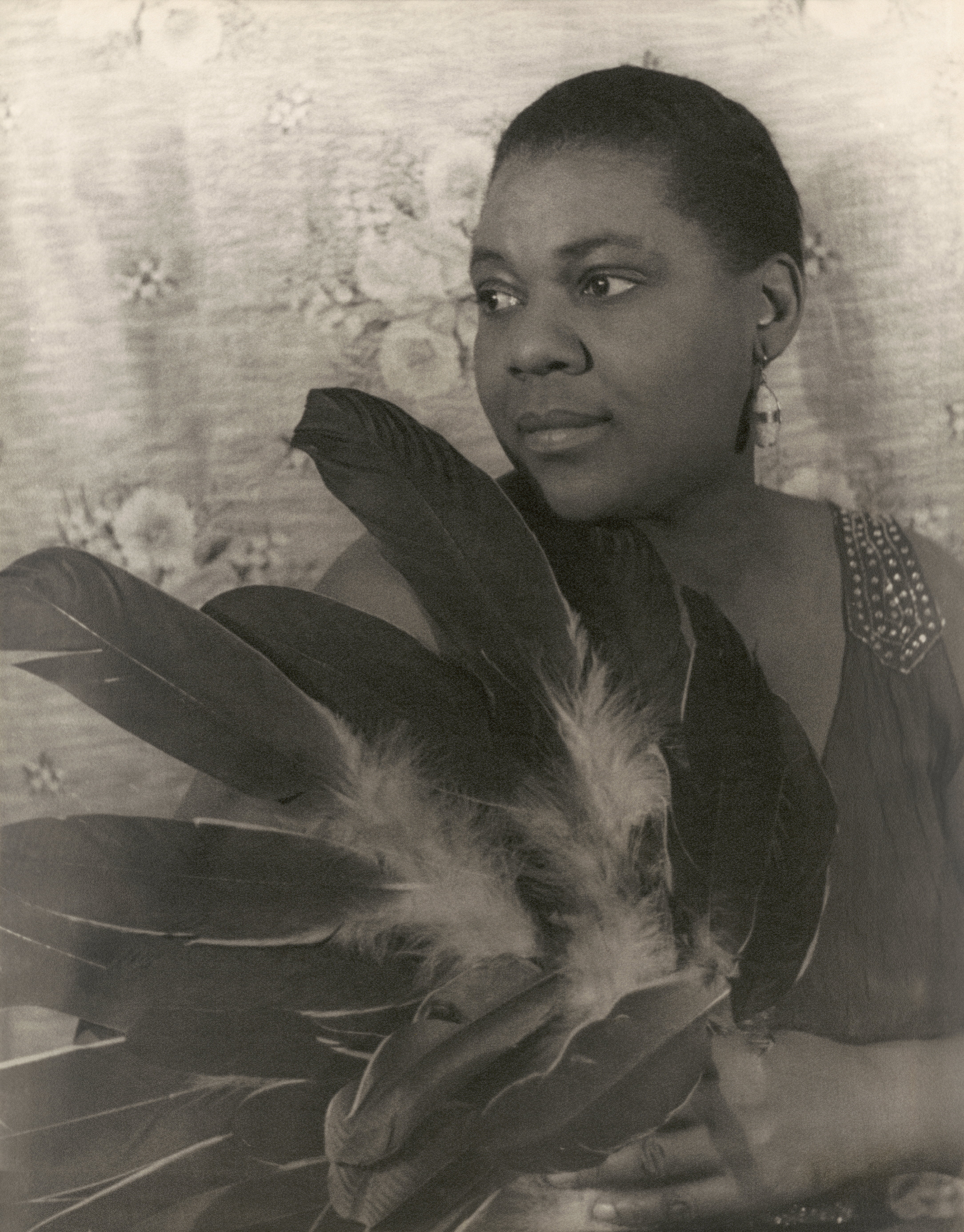 Portrait of Bessie Smith holding feathers